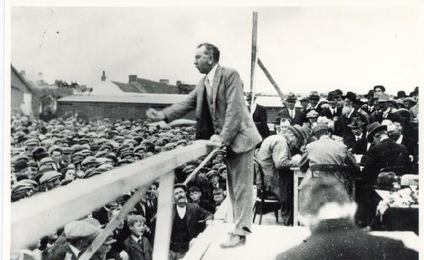 Fionan Lynch